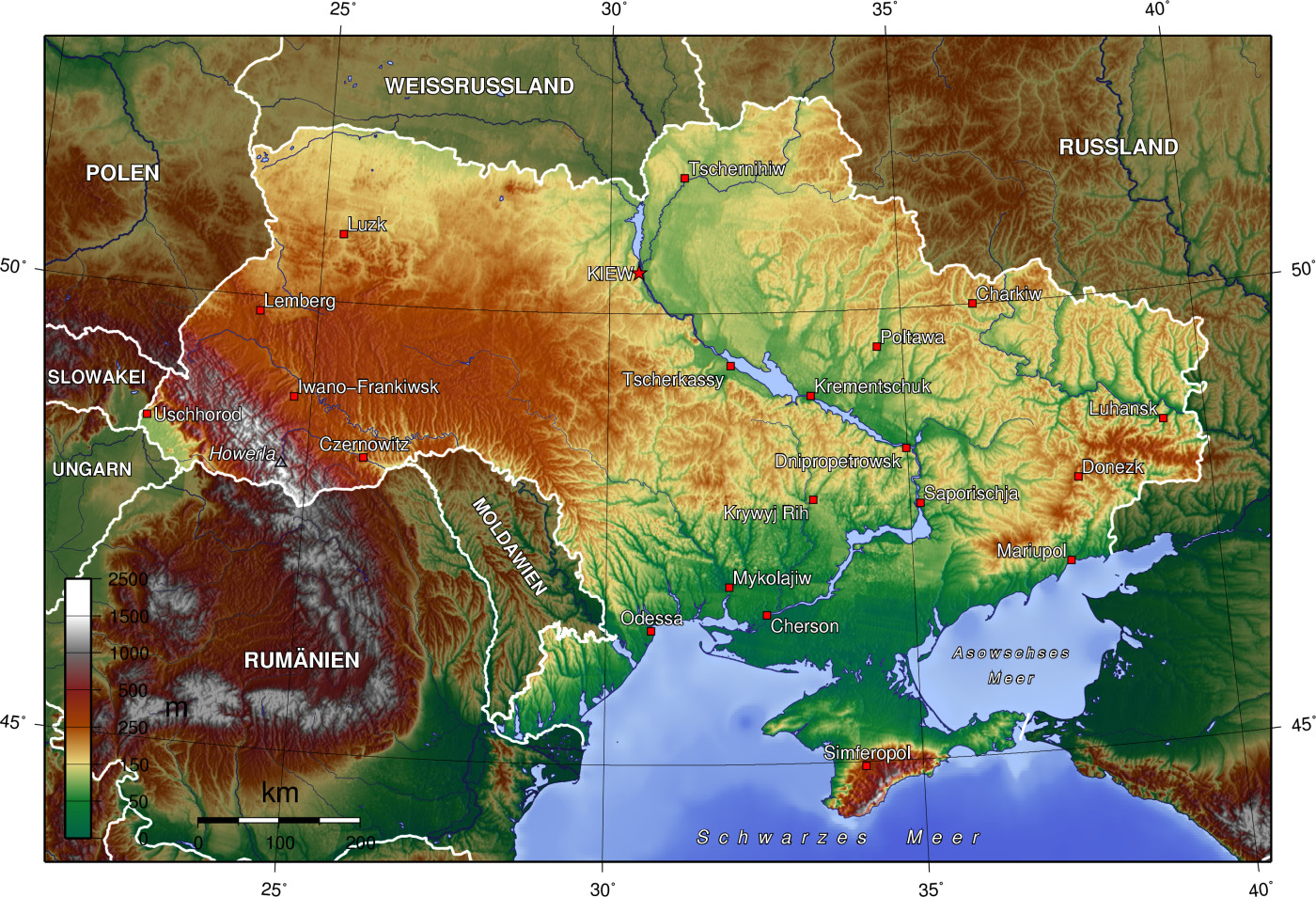 Topographical map of Ukraine (DE).